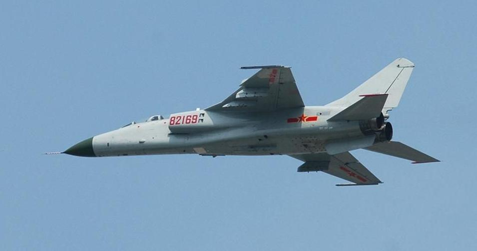 The bottom view of JH-7.